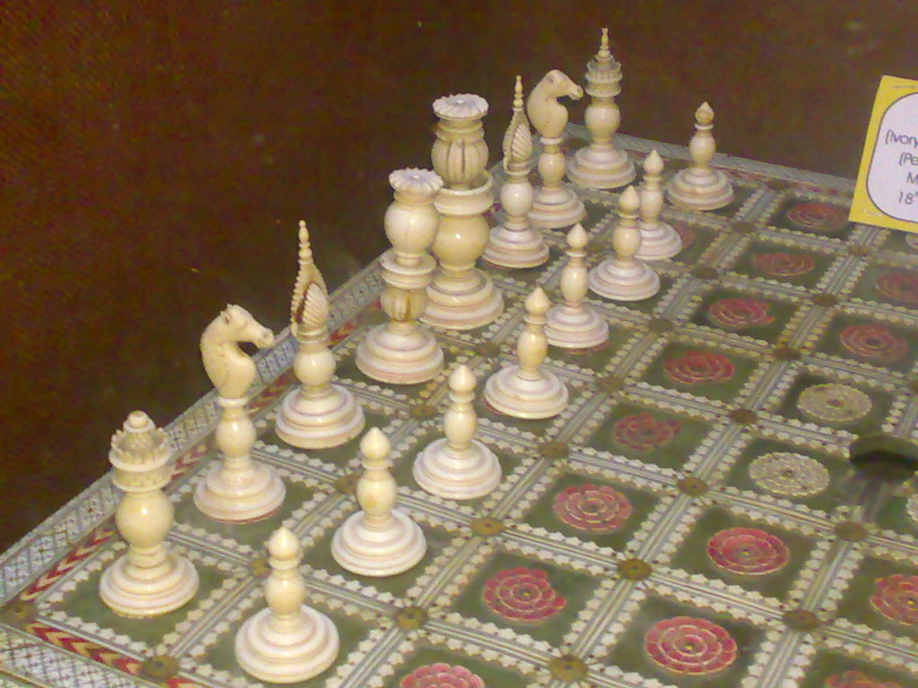 Chess board in Raja Dinkar Kelkar Museum